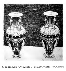 Visitors attraction in & around Bidar city